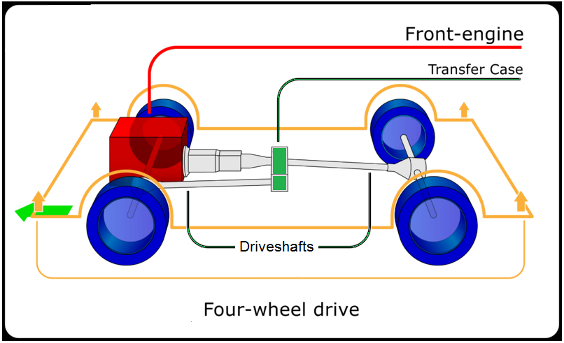 Vehicle engine and drive wheel placement diagrams